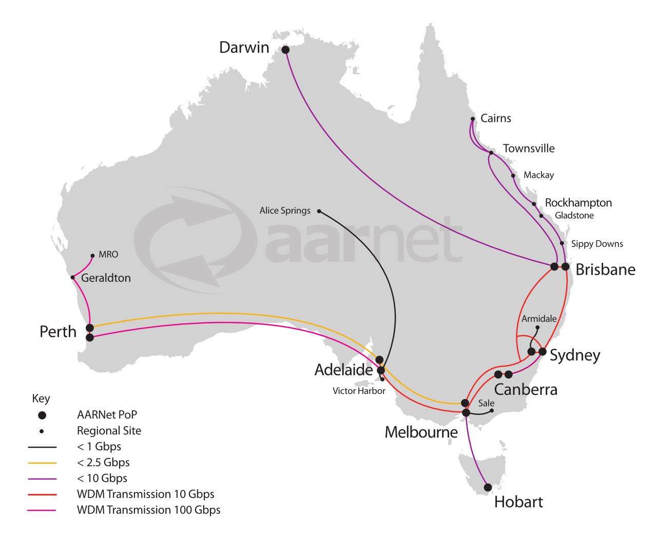 This is a map of the AARNet national optical fibre network, as at October 2013. It is a conceptual representation in that it does not purport to show the exact paths of the optical fibres between the nodes.